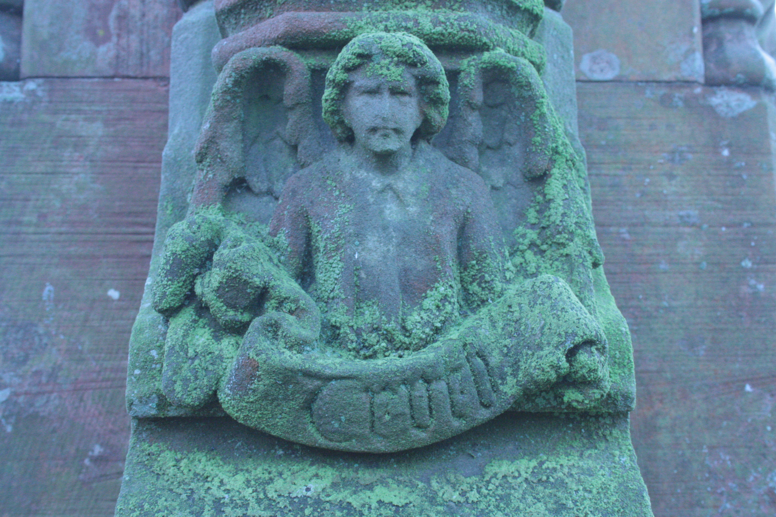 An angel carrying the banner of "Truth", Roslin, Midlothian